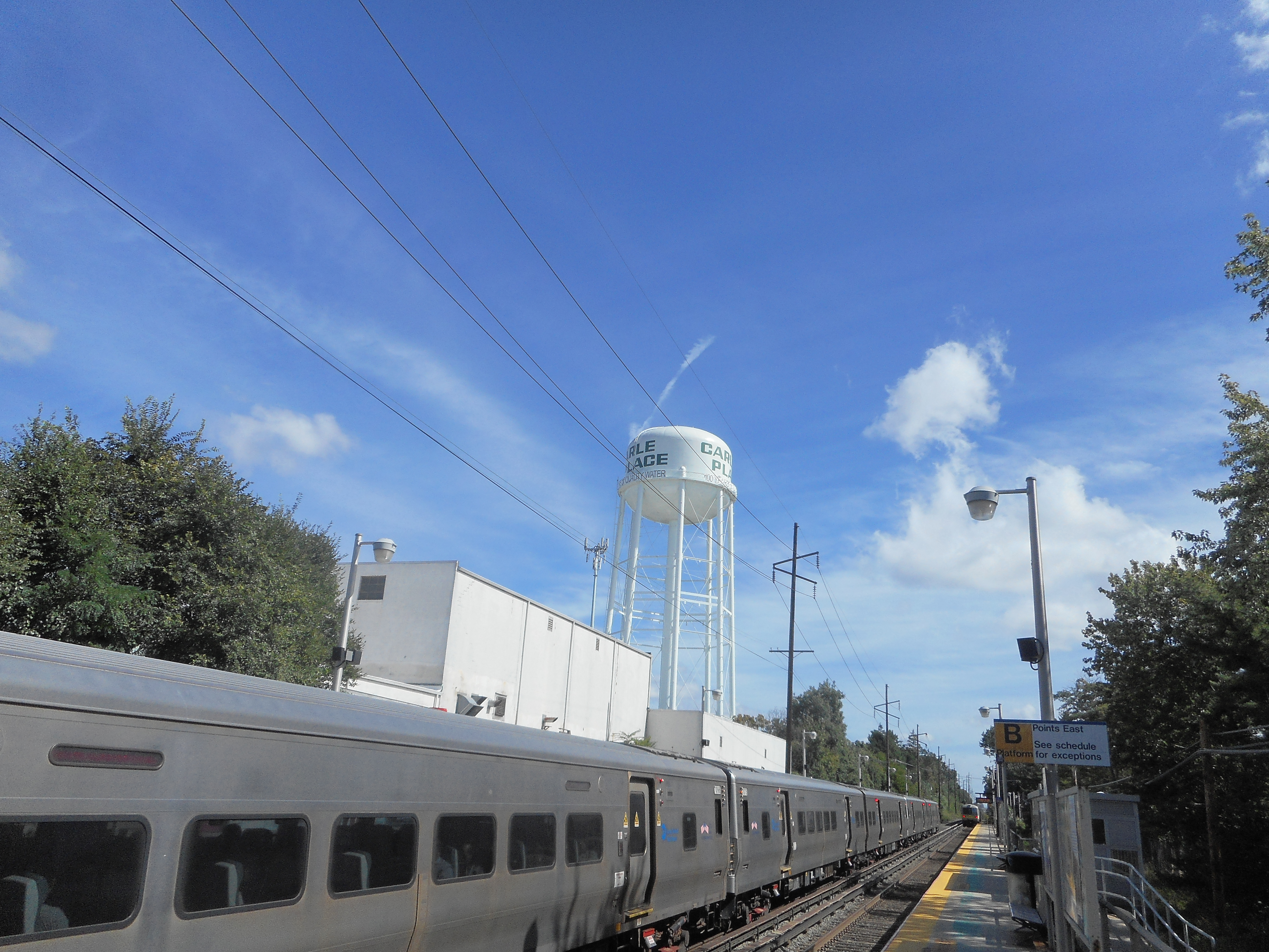 Carle Place (LIRR station), with the Carle Place Water Tower in the background.